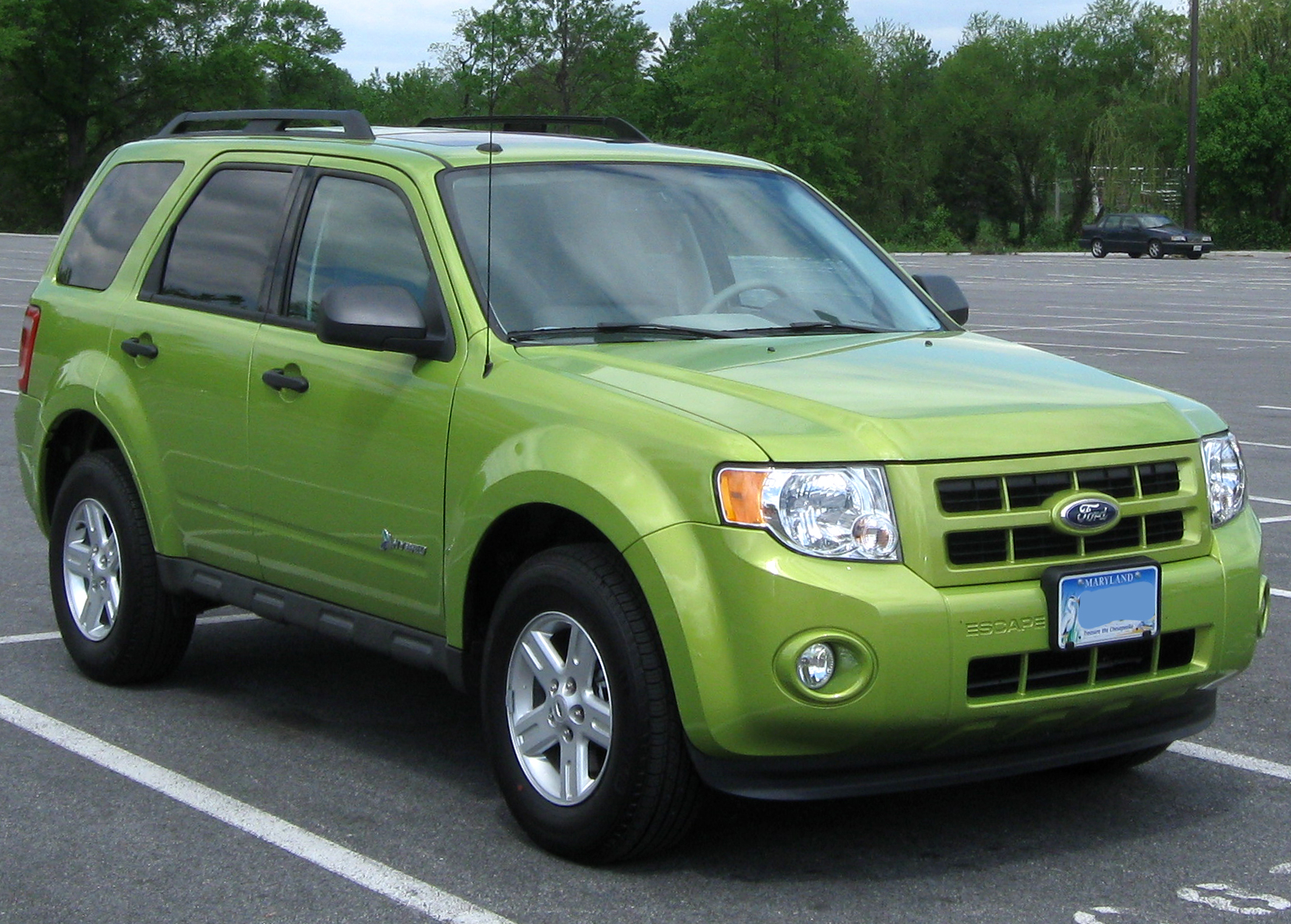 Ford Escape Hybrid photographed in College Park, Maryland, USA.